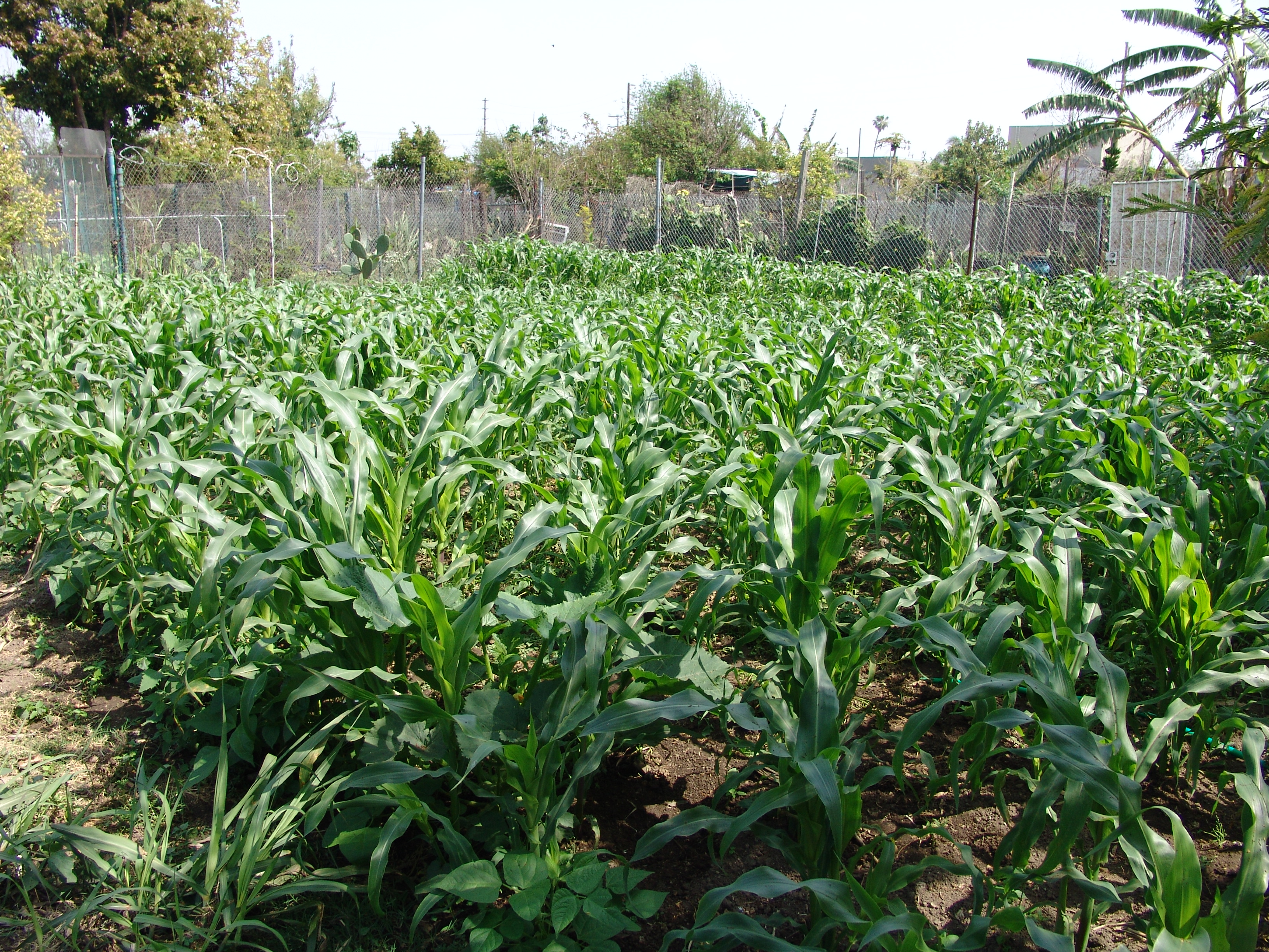 South Central Farm in the city of Los Angeles California. The 14 acres located at 41st and Alameda St. is one of the largest urban gardens in the United States.